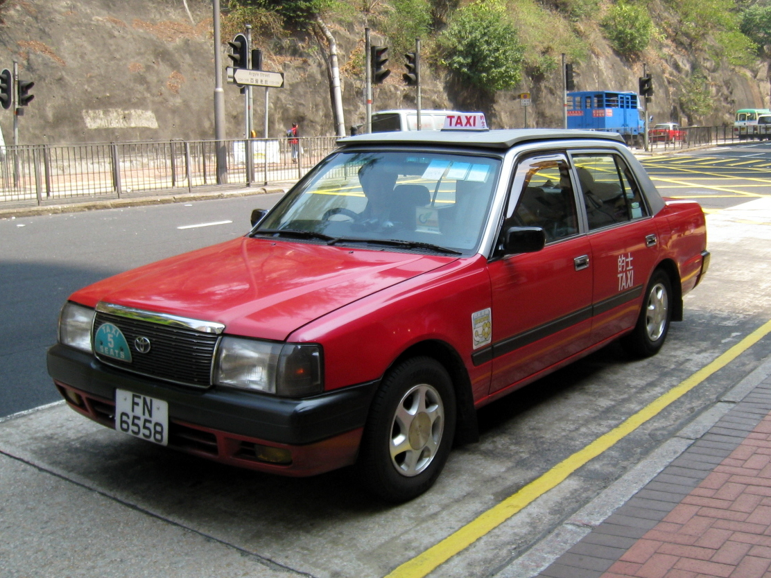 HK Toyota Comfort Red Taxi